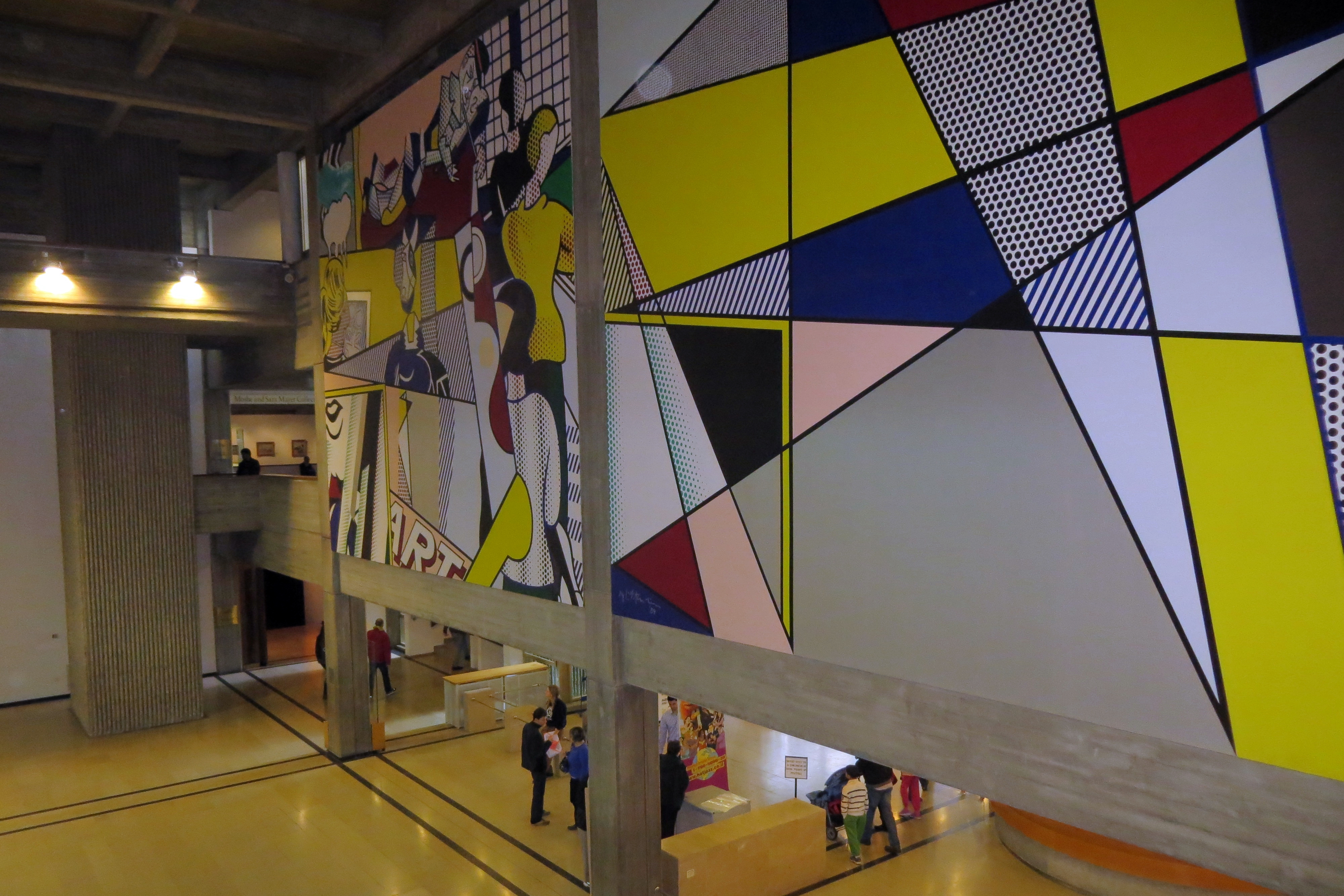 Tel Aviv Museum of Art, 2013